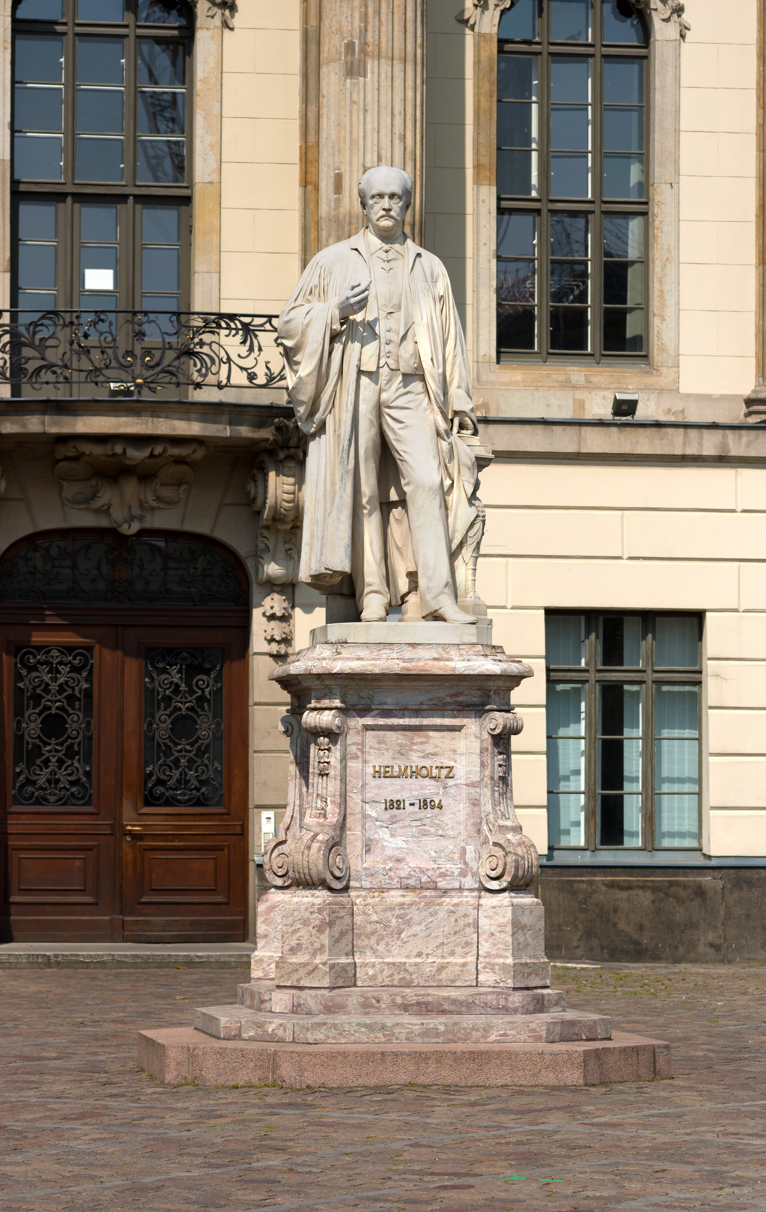 Hermann von Helmholtz-Statue in front of Humboldt-University of Berlin on the base of Marxgrüner Marmor.